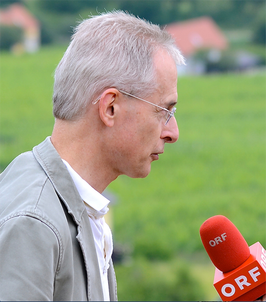 David Schildknecht, 2014